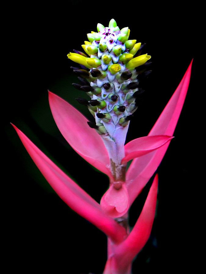 Aechmea maculata : a tropical flowering plant and its inflorescences.